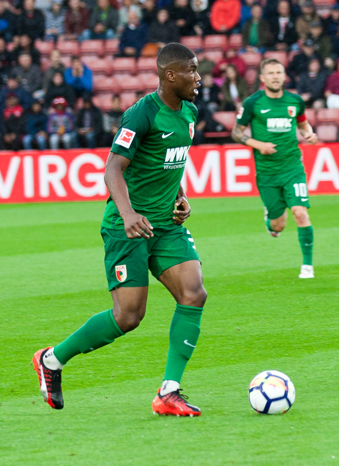 Pre-season friendly Wednesday 2 August 2017 Image by Steve Hogg